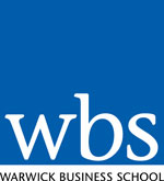 Official Logo of Warwick Business School, UK